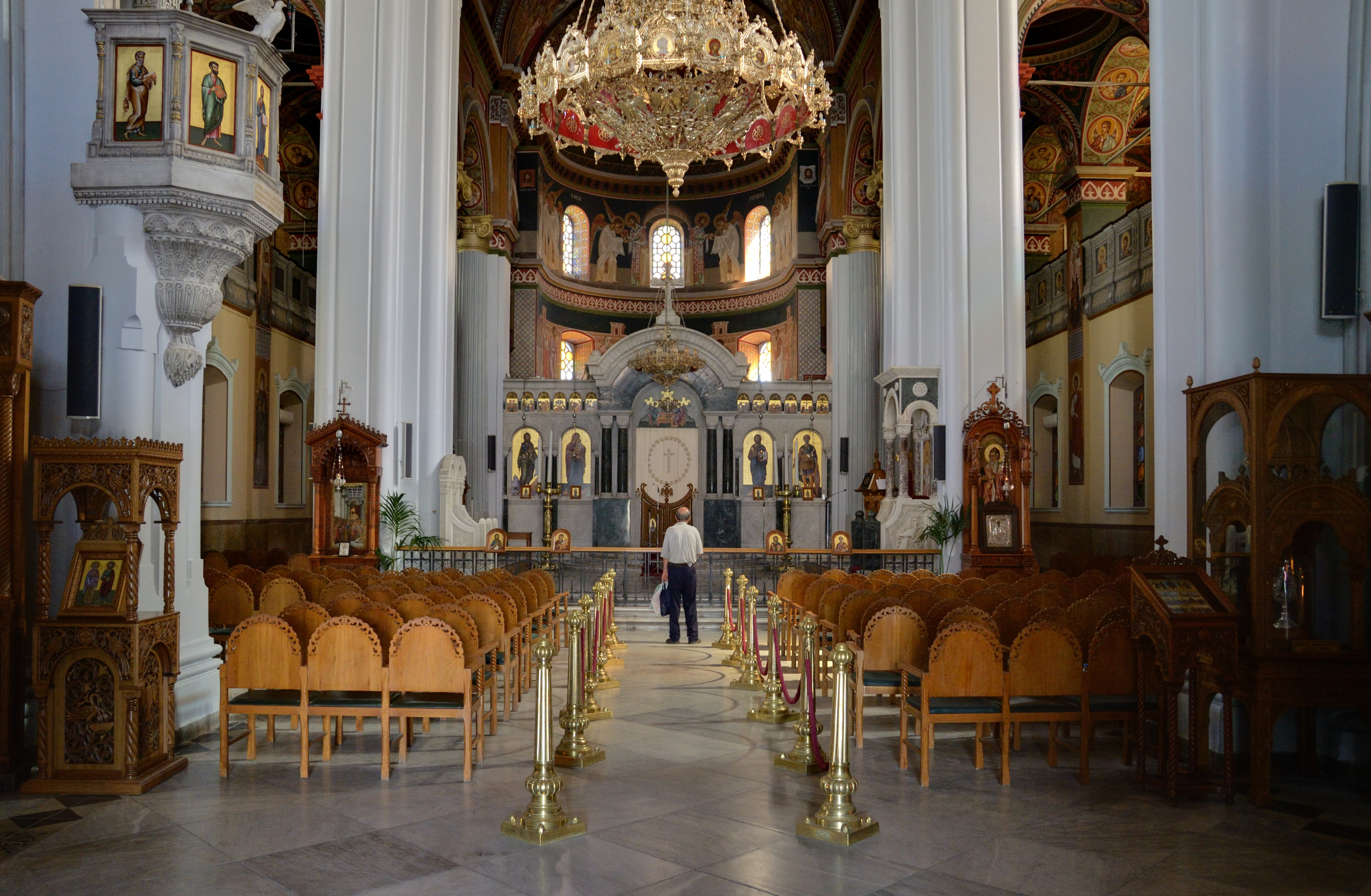 Iraklion: Agios Minas cathedral